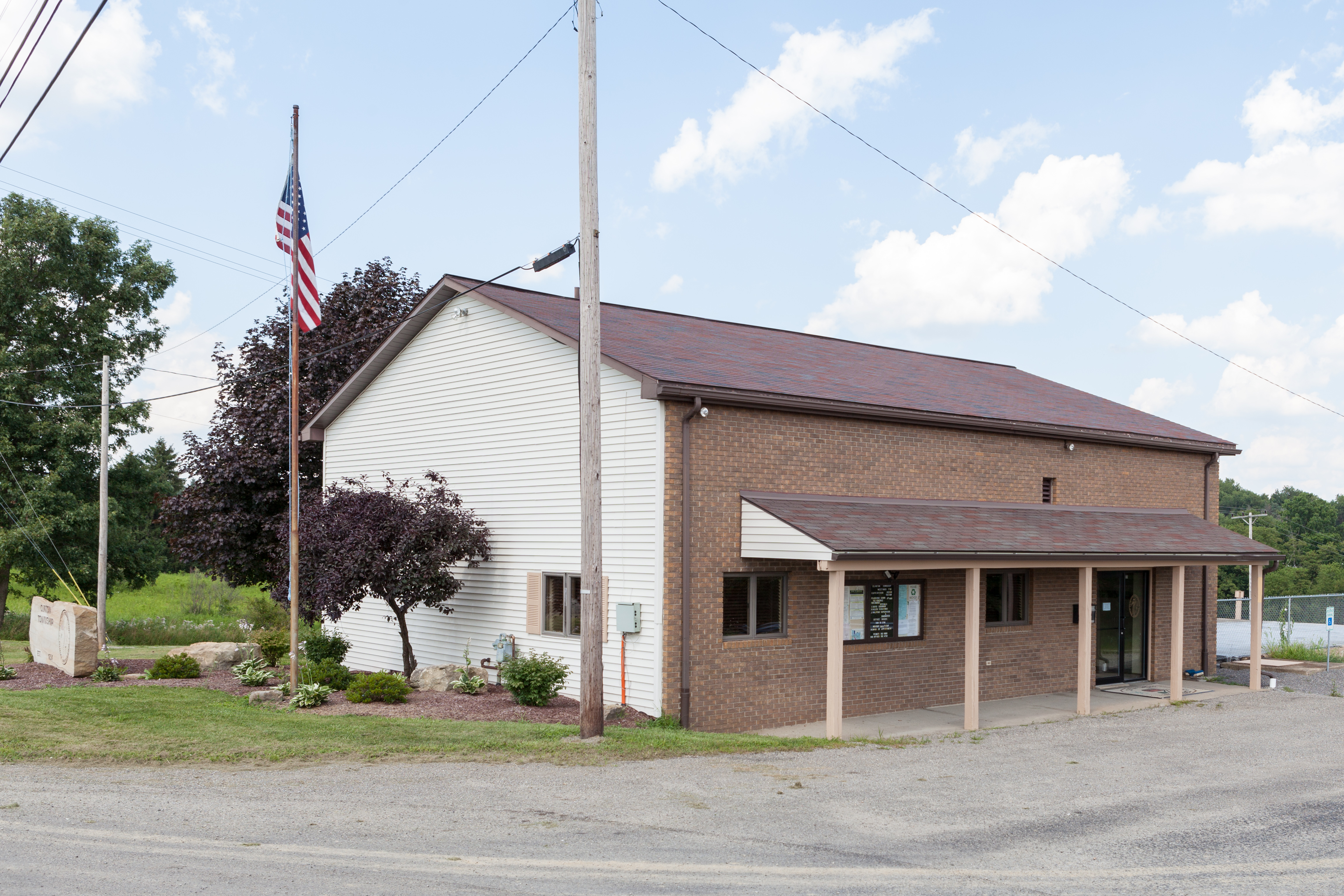 Municipal Building, Clinton Township, Butler County, Pennsylvania at 711 Saxonburg Blvd., Saxonburg, PA 16056